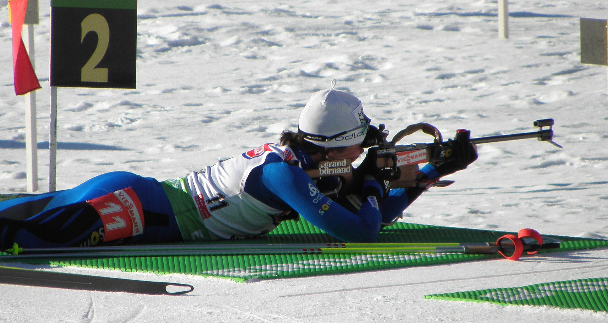 Sylvie Becaert in Antholz, 22-01-2010